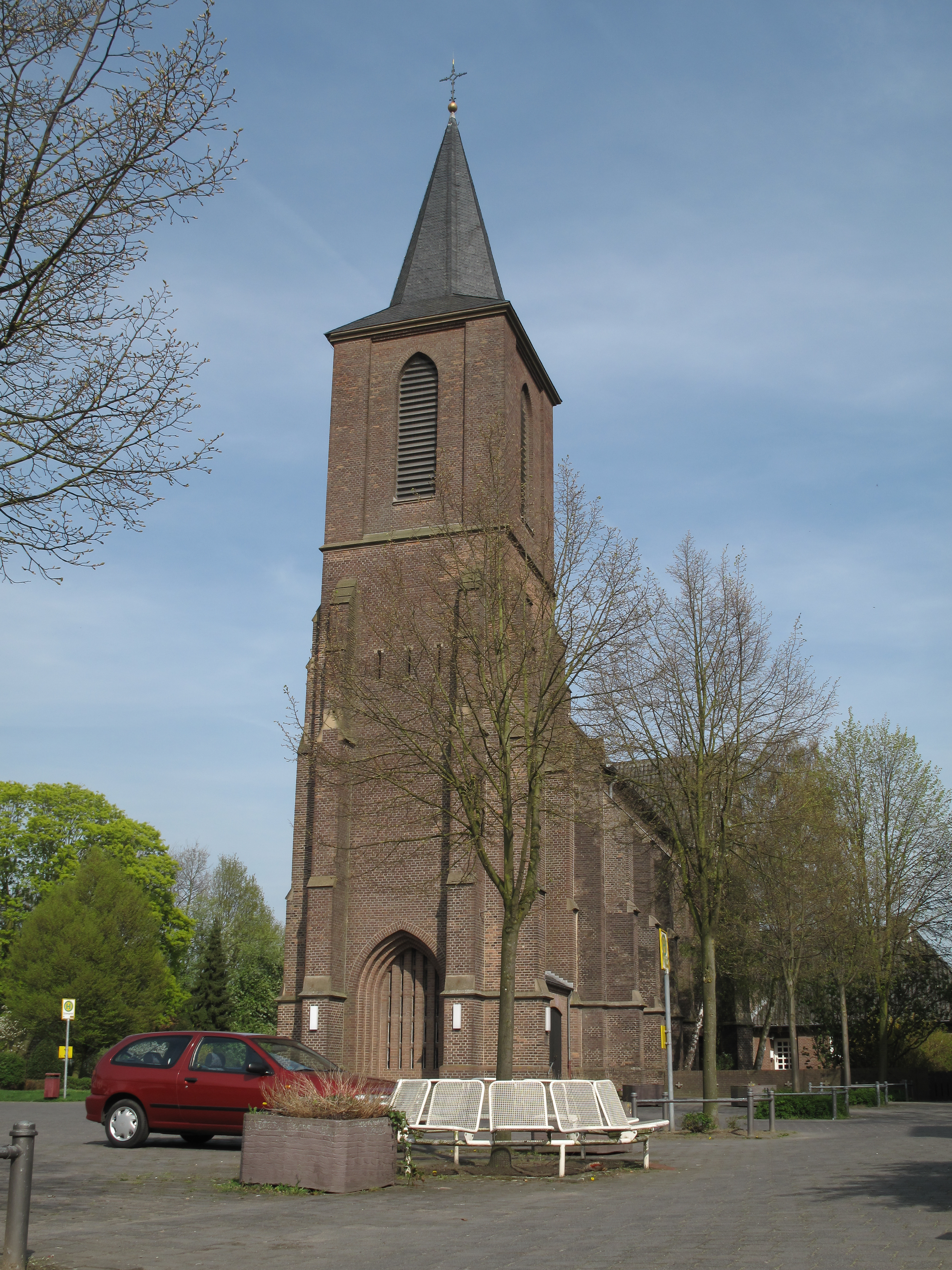 Vrasselt, church